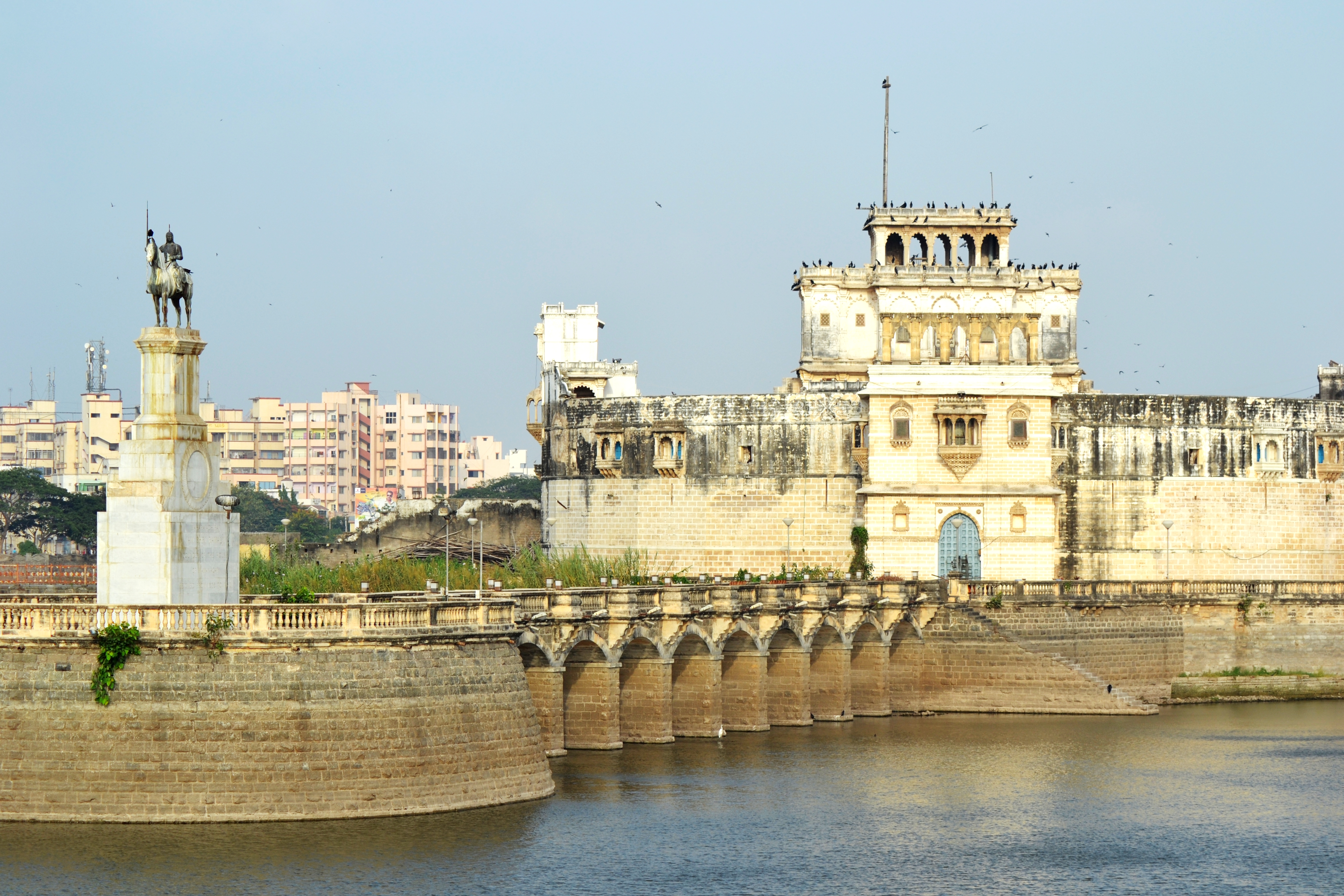 Lakhota Lake Palace in the city of Jamnagar, Gujarat India.